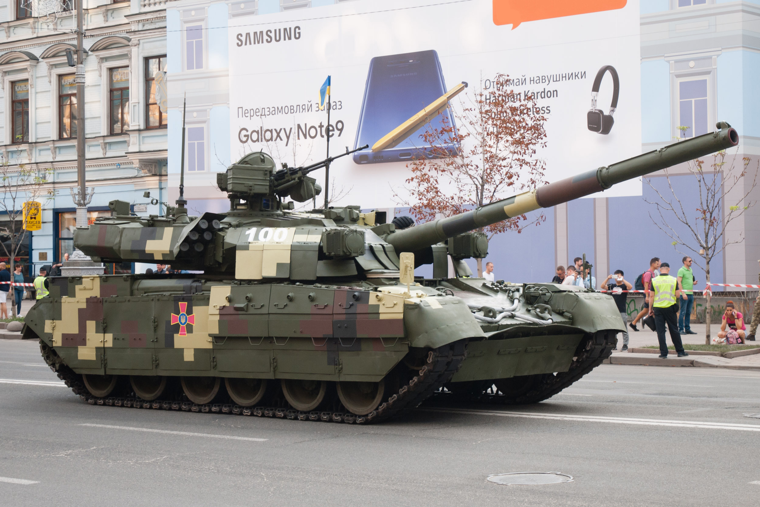 Т-84-120 main battle tank, rehearsal for the Independence Day military parade in Kyiv, 2018